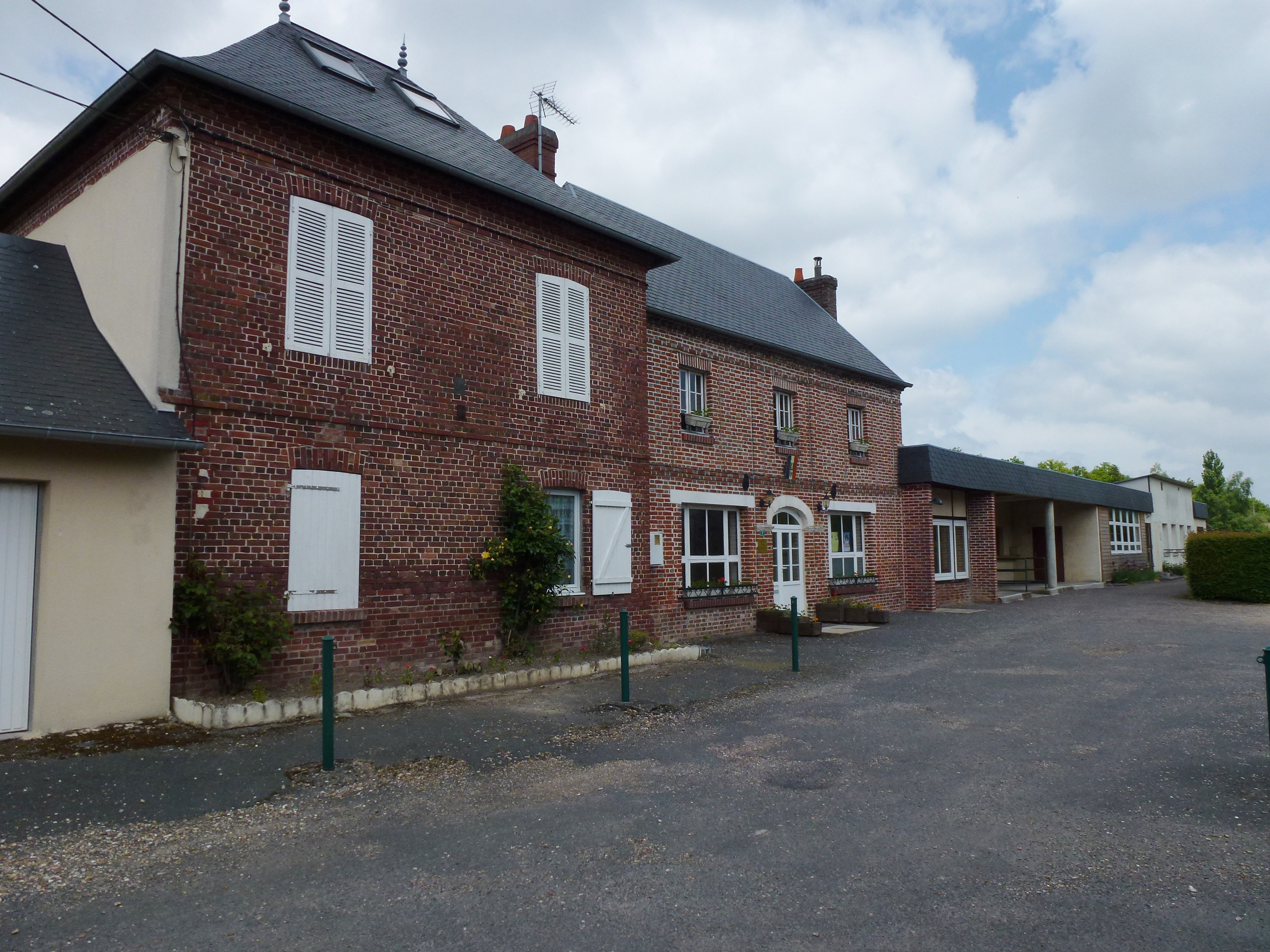 Saint-Léger-de-Rôtes (Eure, Fr) mairie